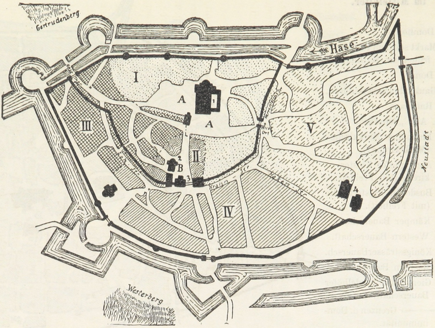 View this map on the BL Georeferencer service. Image taken from: Title: "Zur Verfassungsgeschichte der westfälischen Bischofsstädte ... Mit urkundlichen Beilagen und vier geschichtlichen Stadtplänen" Author: PHILIPPI, Friedrich - Königl. Archivsecretair Shelfmark: "British Library HMNTS 9327.dd.12.(5.)" Page: 17 Place of Publishing: Osnabrück Date of Publishing: 1894 Issuance: monographic Identifier: 002899849 Explore: Find this item in the British Library catalogue, 'Explore'. Download the PDF for this book (volume: 0) Image found on book scan 17 (NB not necessarily a page number) Download the OCR-derived text for this volume: (plain text) or (json) Click here to see all the illustrations in this book and click here to browse other illustrations published in books in the same year. Order a higher quality version from here.